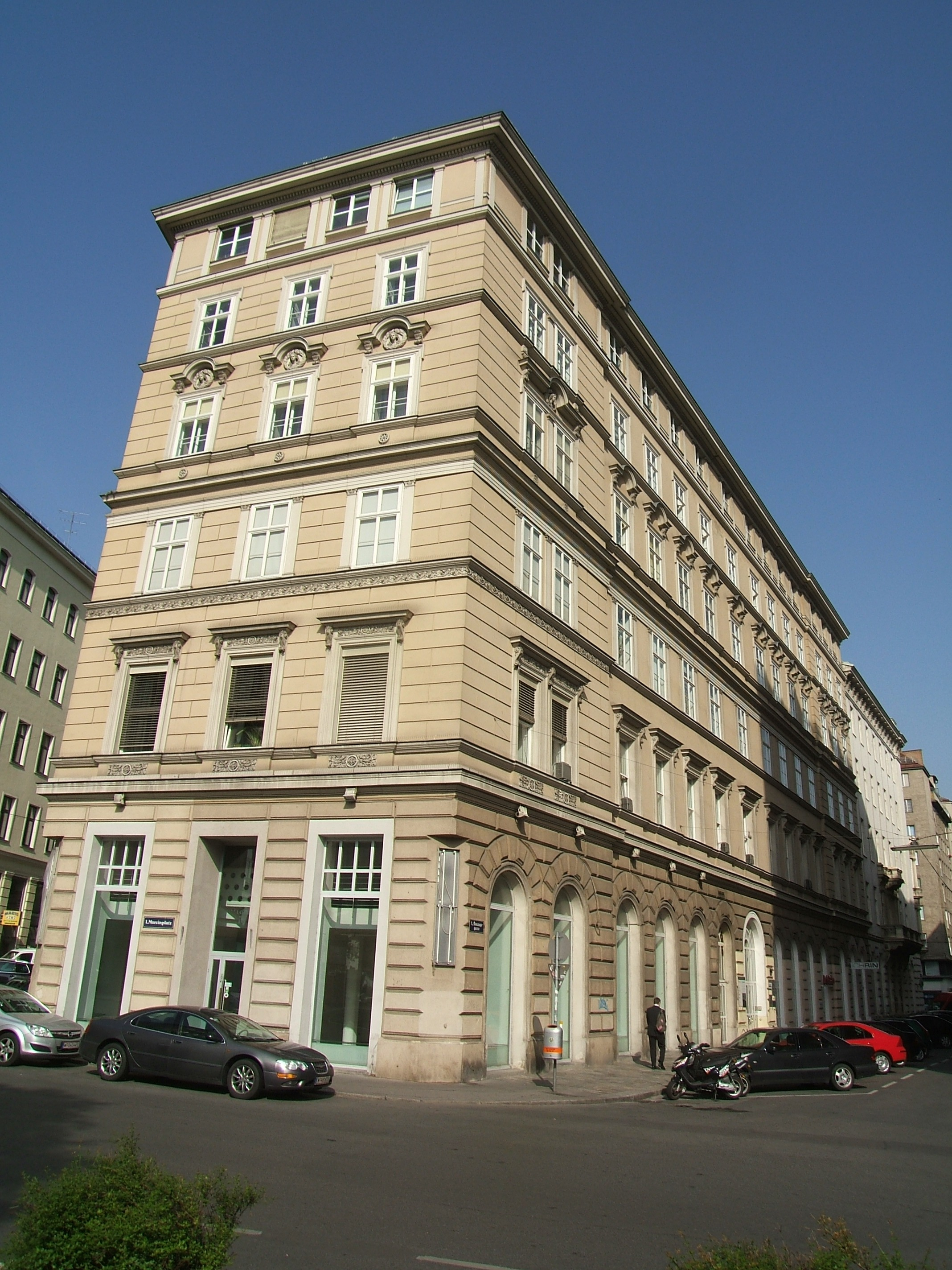 Palais Wickenburg in Vienna 1st district Gonzagagasse 1